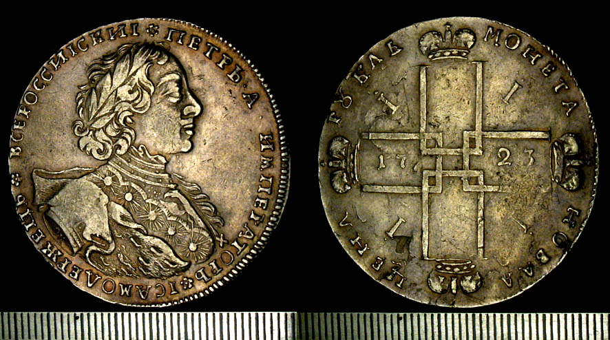 Rubl 1723